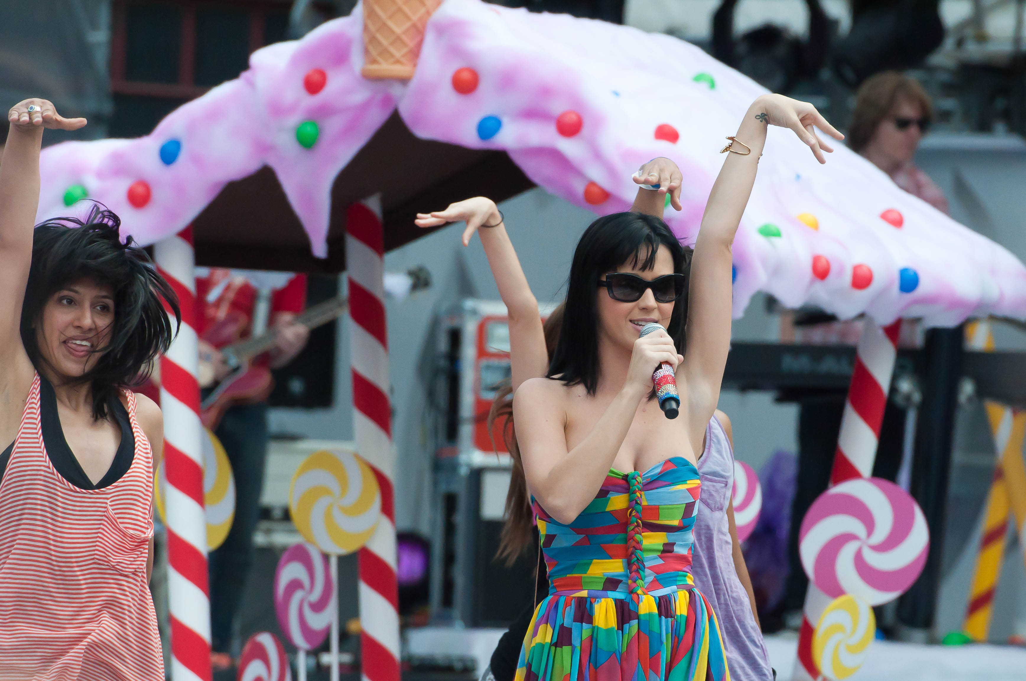 Katy Perry - MMVA Soundcheck